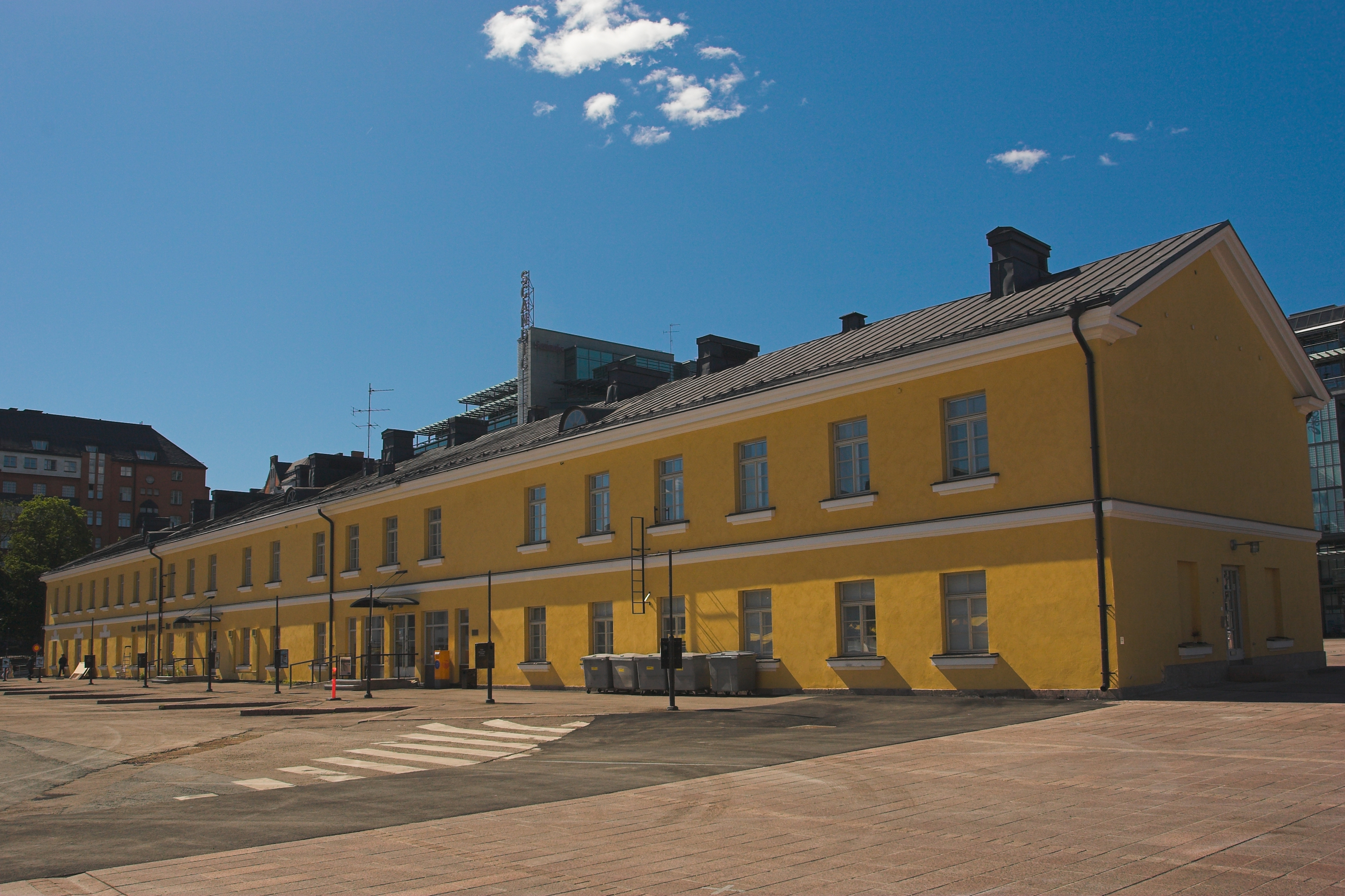 The Old Helsinki main bus terminal in Helsinki, Finland. Built in the 1830s. Architect: Carl Ludvig Engel.